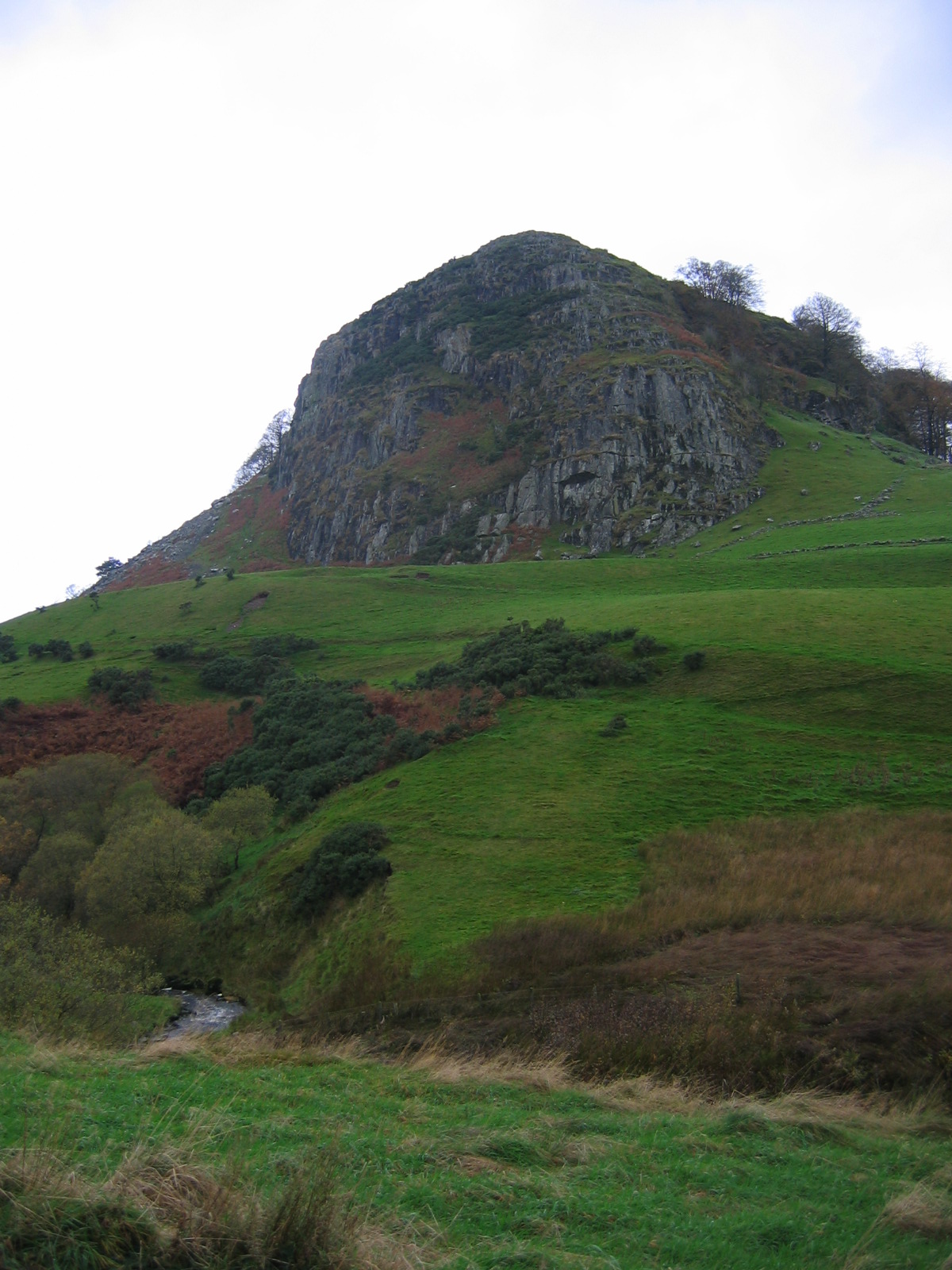 Loudoun Hill, near Darvel, Ayrshire, Scotland. Taken by me